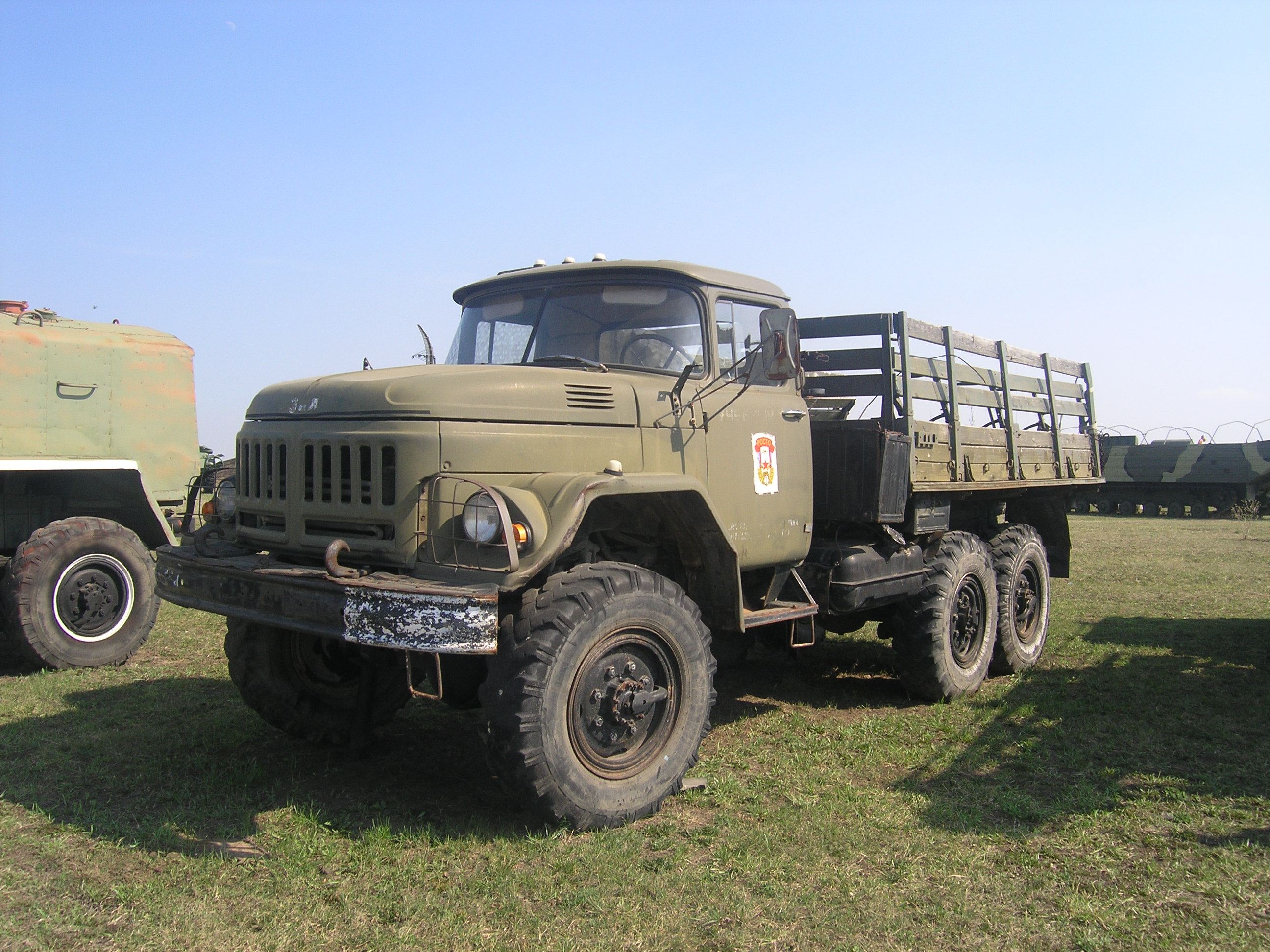 ZiL-131, technical museum, Togliatti, Russia